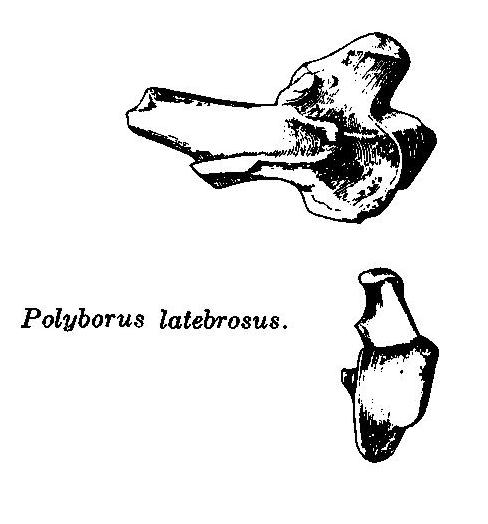 Right metacarpus (type specmen) seen from two angles. From Wetmore on Cave Birds of Porto Rico (Bulletin of the American Museum of Natural History) Vol. 46, Article 4, 1922 .